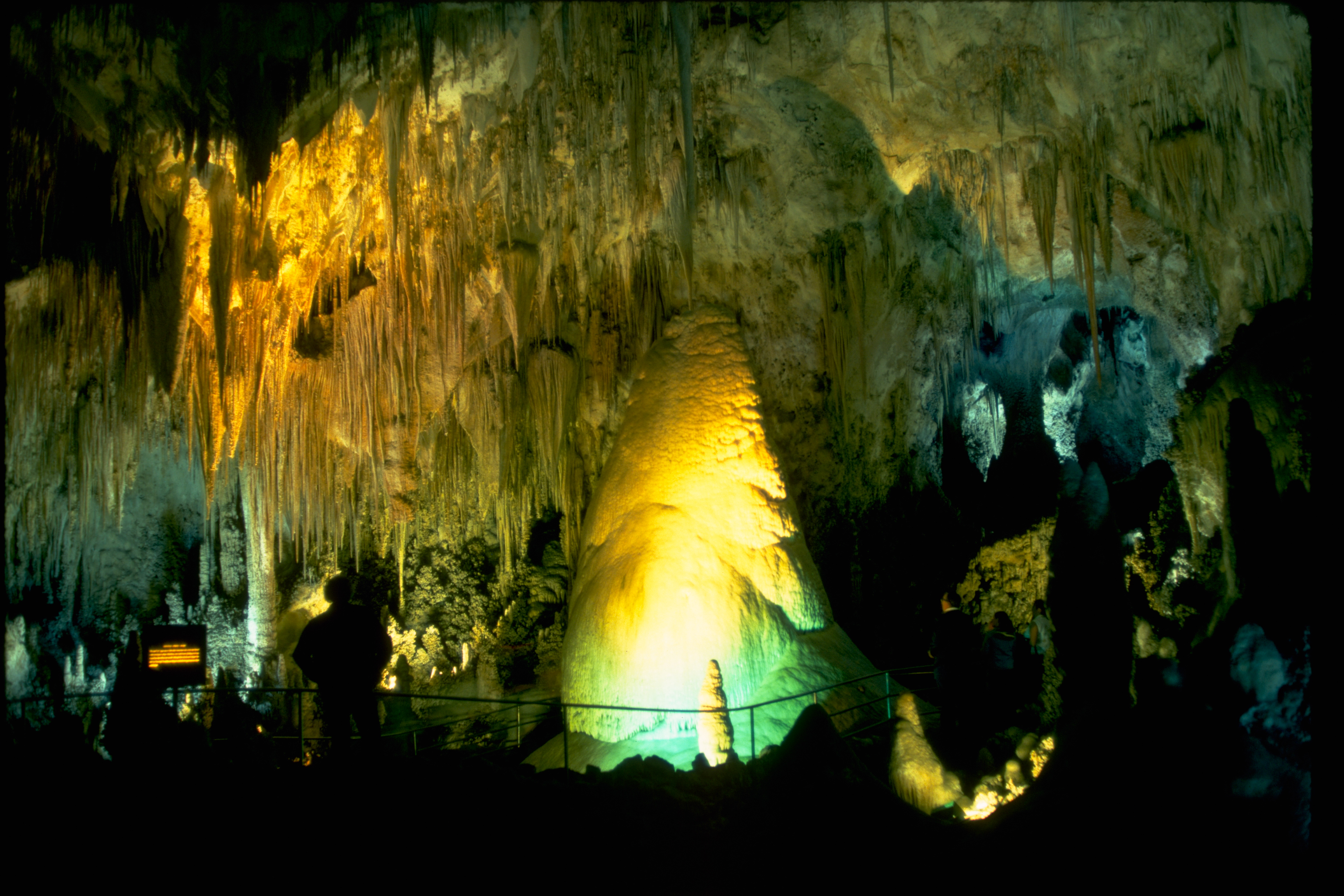 Location Carlsbad Caverns National Park Description As you pass through the Chihuahuan Desert and Guadalupe Mountains of southeastern New Mexico and west Texas—filled with prickly pear, chollas, sotols and agaves—you might never guess there are more than 300 known caves beneath the surface. The park contains 113 of these caves, formed when sulfuric acid dissolved the surrounding limestone, creating some of the largest caves in North America.